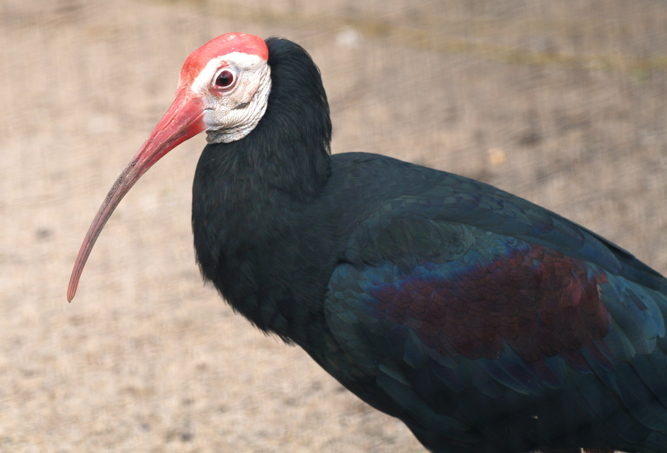 Geronticus calvus from Cologne Zoo, Germany.